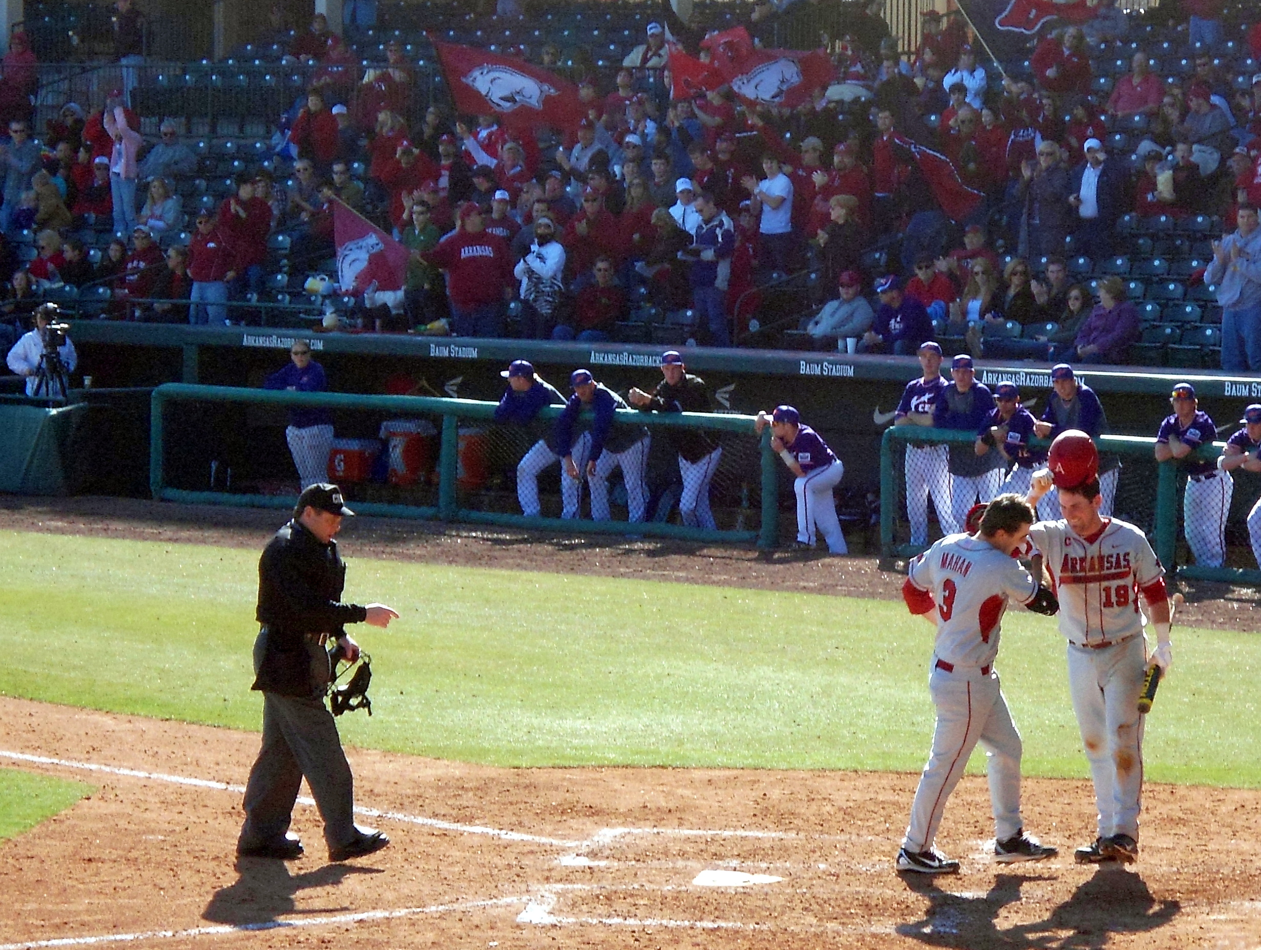 Jacob Mahan steps past home plate and celebrates a home run with Jake Wise for the Arkansas Razorbacks against the Evansville Purple Aces